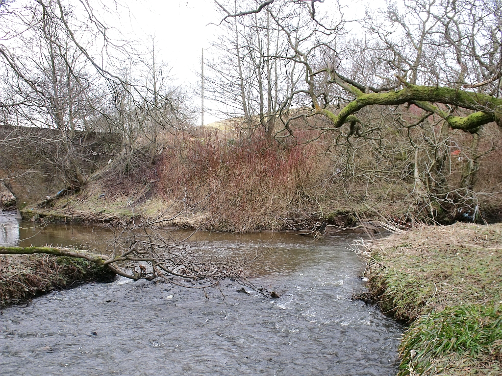 Meeting of the waters The Shank flows towards the Luggie which comes into the picture from the right.